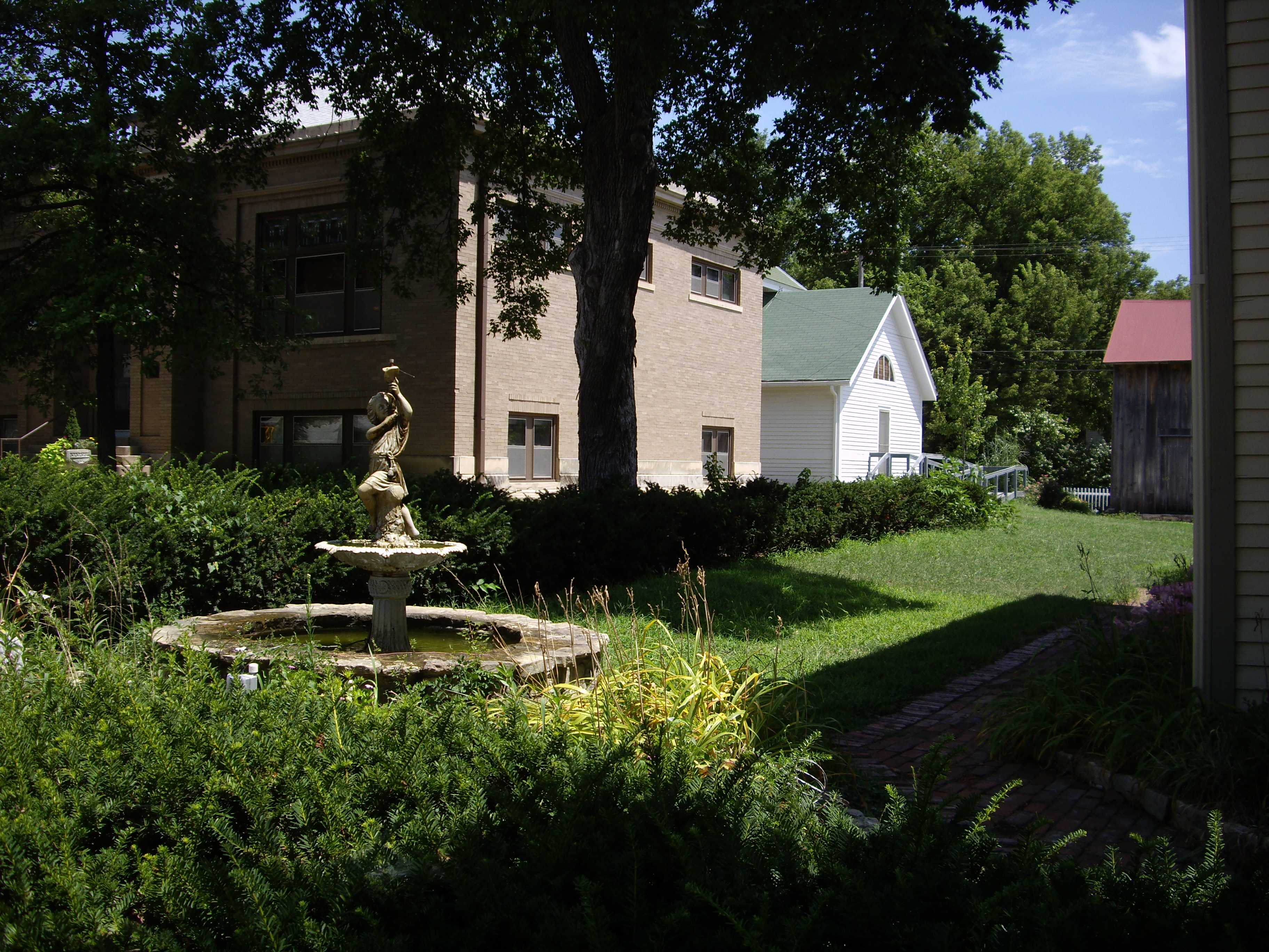 Fountain next to historic W.H. Morgan House, 2xx N Walnut St, Peabody, Kansas, 666866, USA. Looking northeast. W.H. Morgan House (immediate right), W.H. Morgan Barn (back right with red roof), Library (left in brown brick), museum (middle in white/green). Photo by Steve Meirowsky on August 4, 2010.